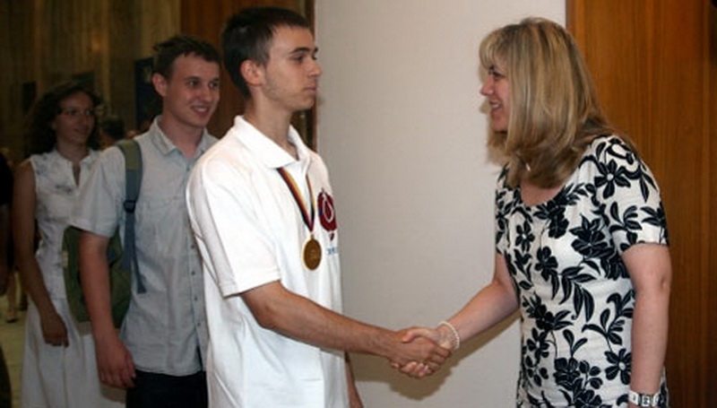 Serbian Minister of Youth and Sports, Snežana Samardžić-Marković, congratulating MGB students and professors for winning absolute first place at international competition "Romanian Master", organized for best 120 mathematicians (best 20 teams) from previous year's International Mathematics Olympiad (IMO). Students: Teodor fon Burg, Stevan Gajović, Igor Spasojević, Rade Špegar, Simon Stojković, Mario Cekić.